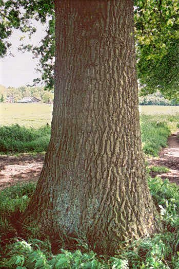 Trunk of a Quercus robur tree.